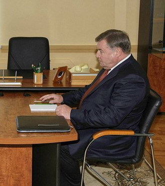 Governor of Orel Oblast Alexander Kozlov at a meeting with the President of the Russian Federation Dmitry Medvedev